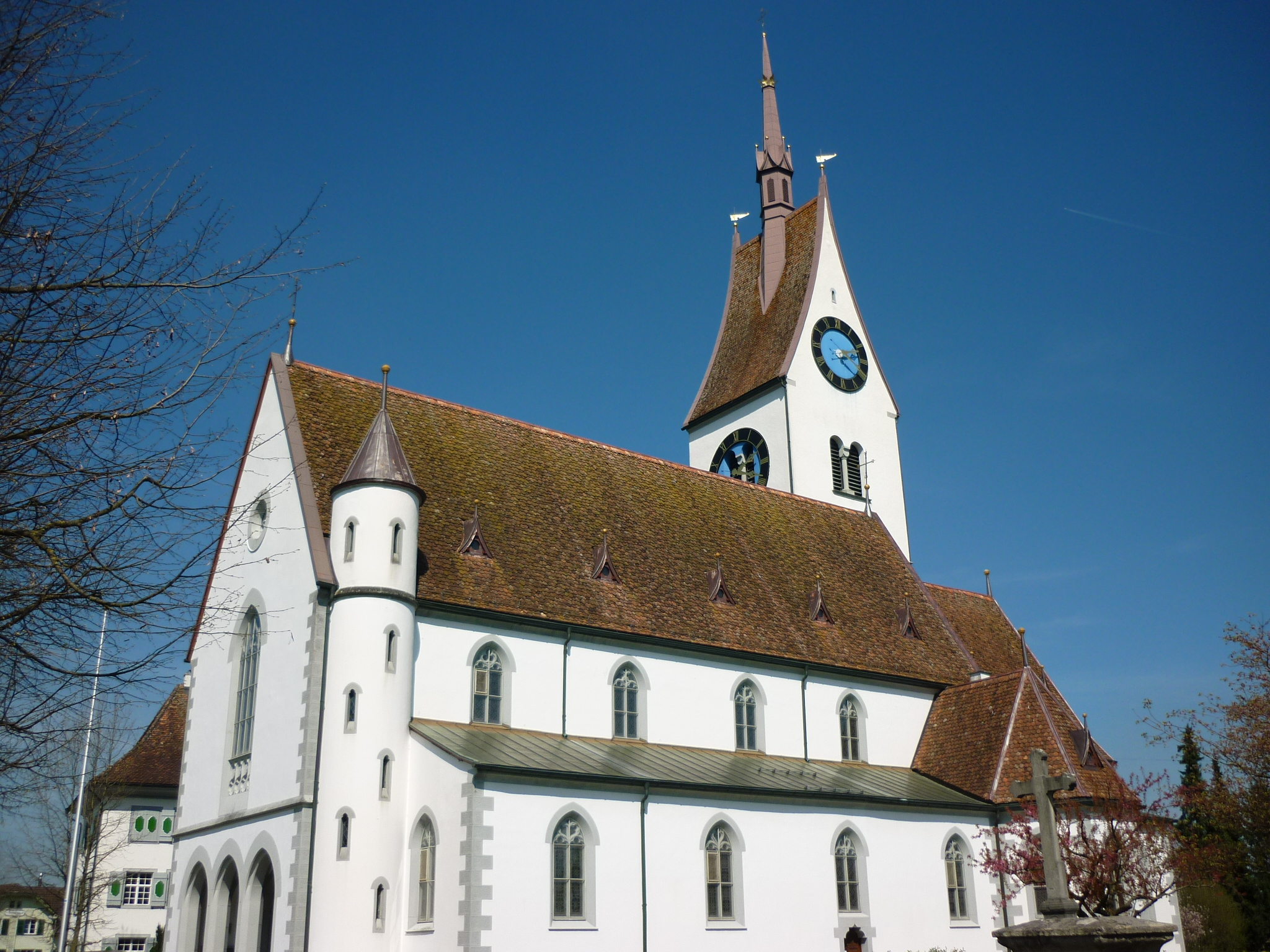 Church Merenschwand AG, Switzerland Kirche Merenschwand AG, Schweiz